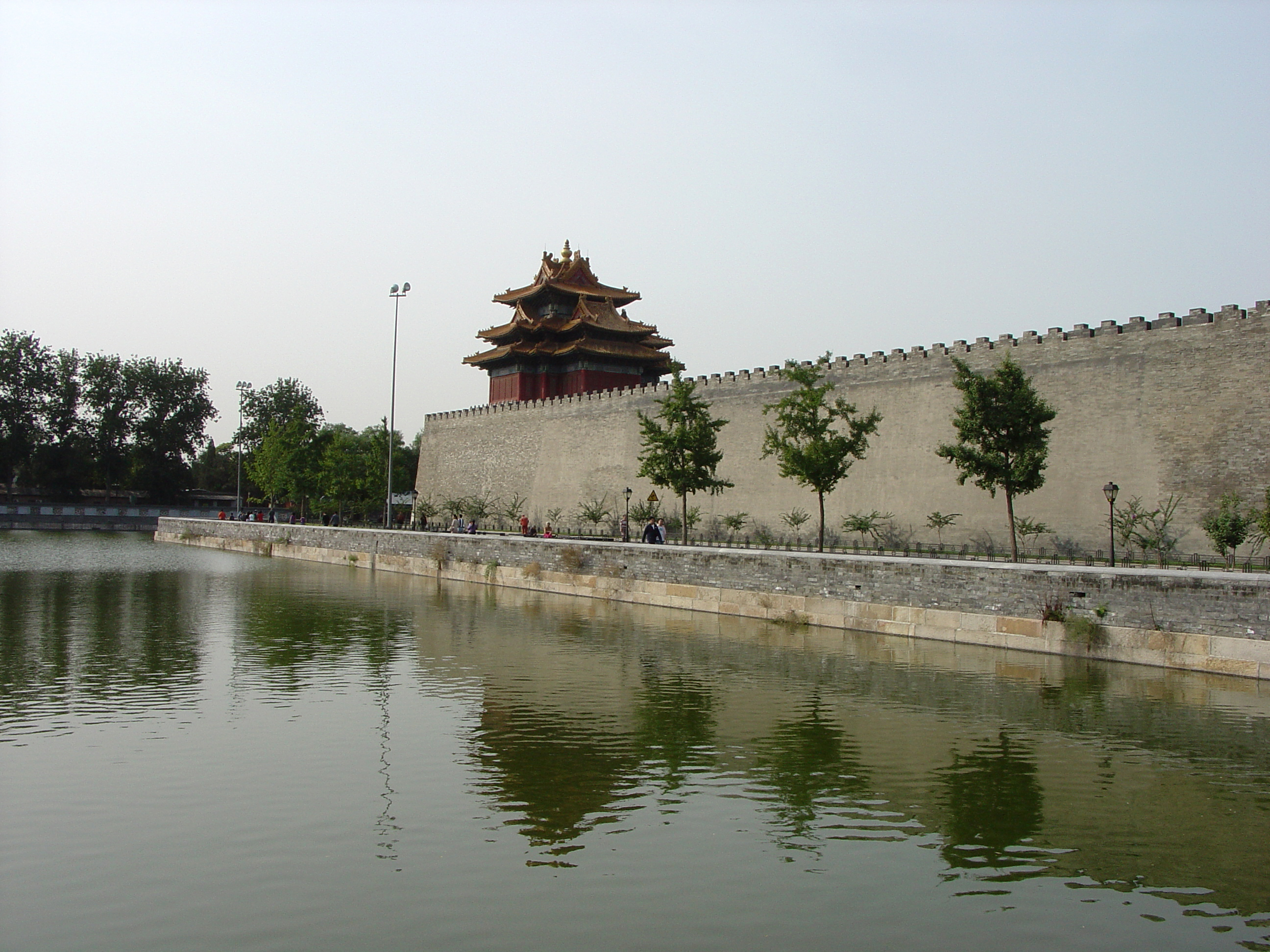 Corner Tower. Forbidden City, Beijing Guard towers are placed at each of the four corners of the palace wall, which is surrounded by a moat. The towers are distinctively redented, with multiple eaves. The southeast tower is seen here.